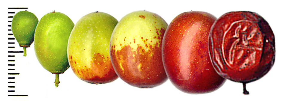 Fruit ripening of Ziziphus jujuba